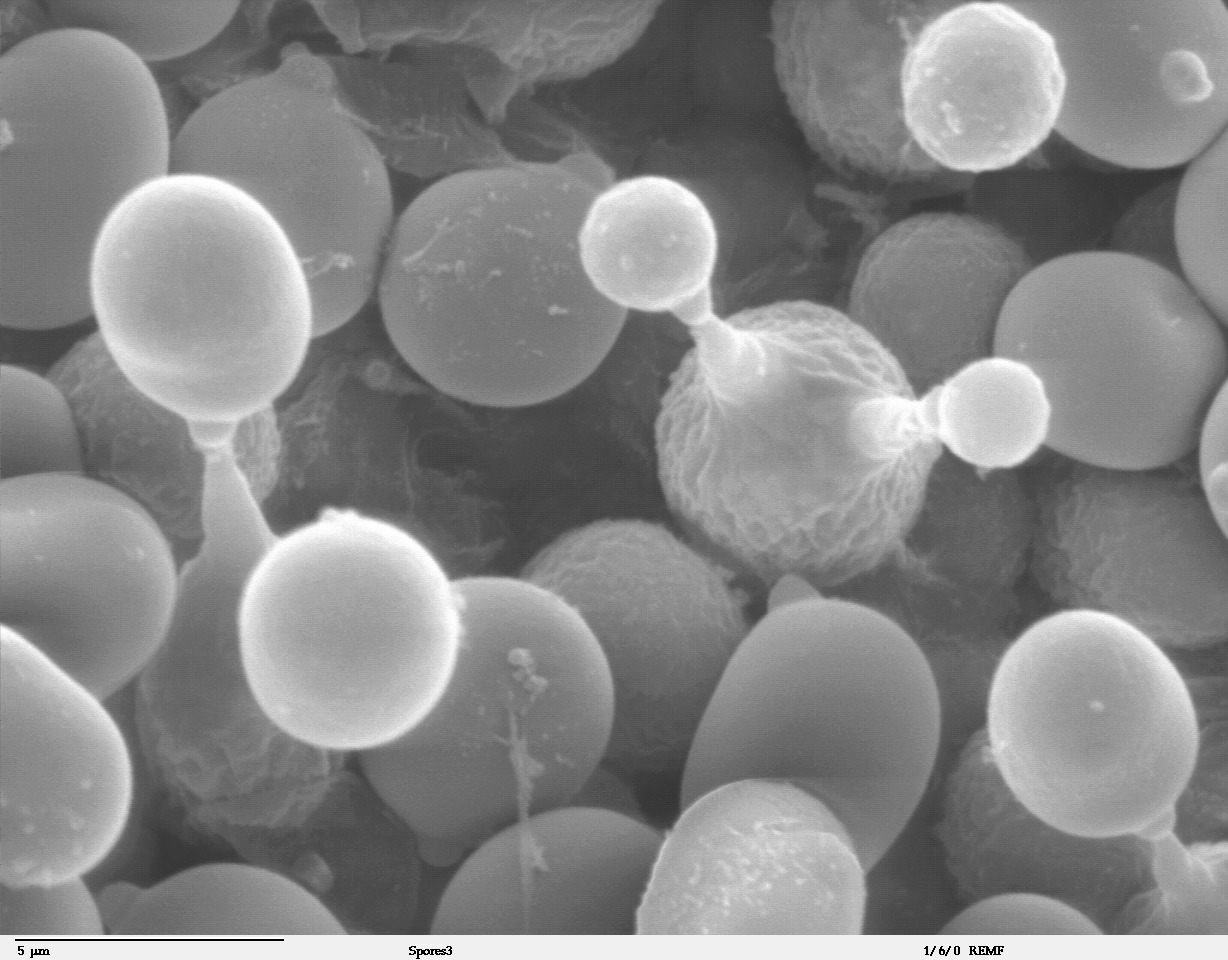 Scanning electron microscope image of budding mushroom spores. Agaricus bisporus